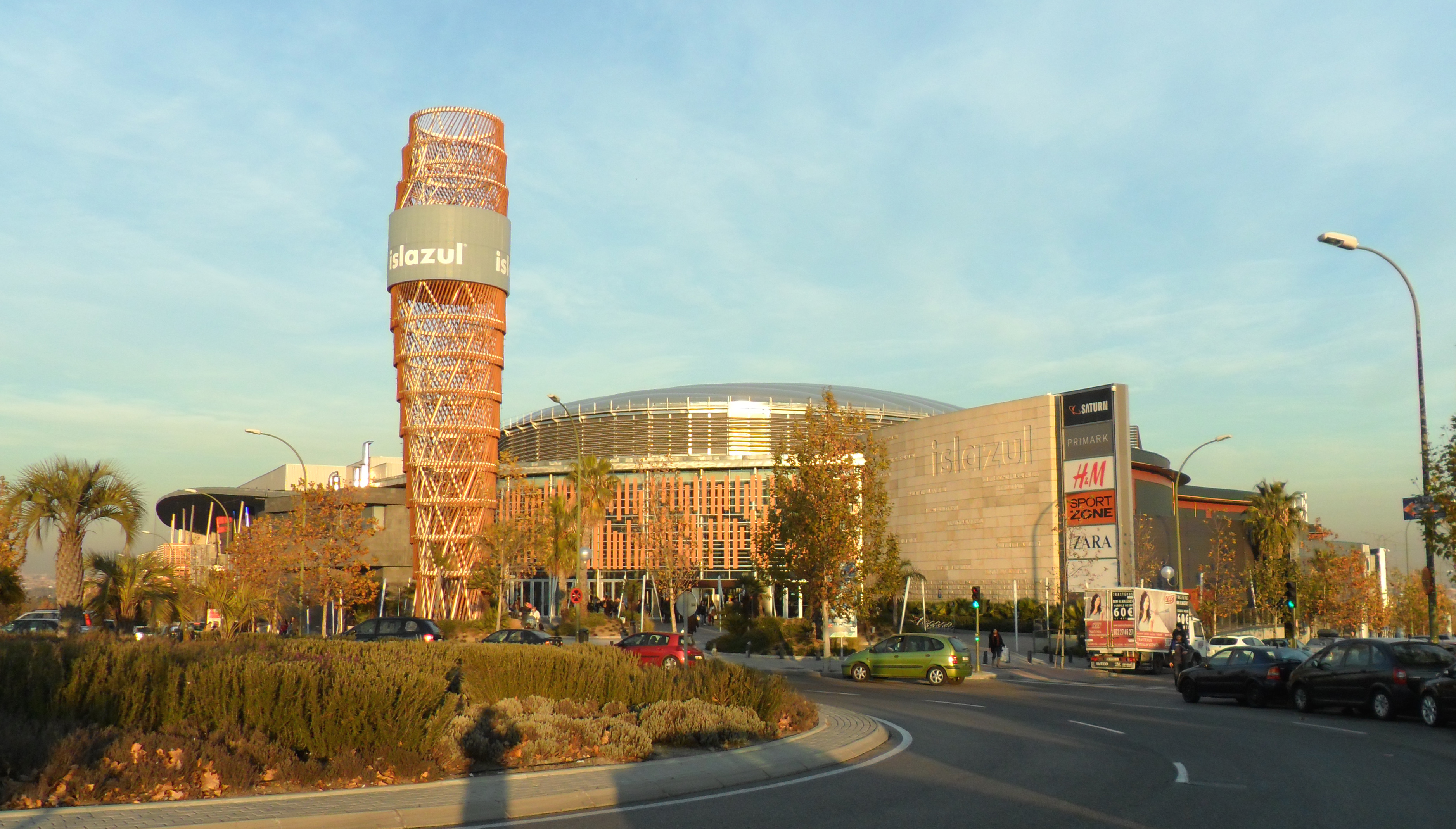 View of Islazul mall in Madrid (Spain).